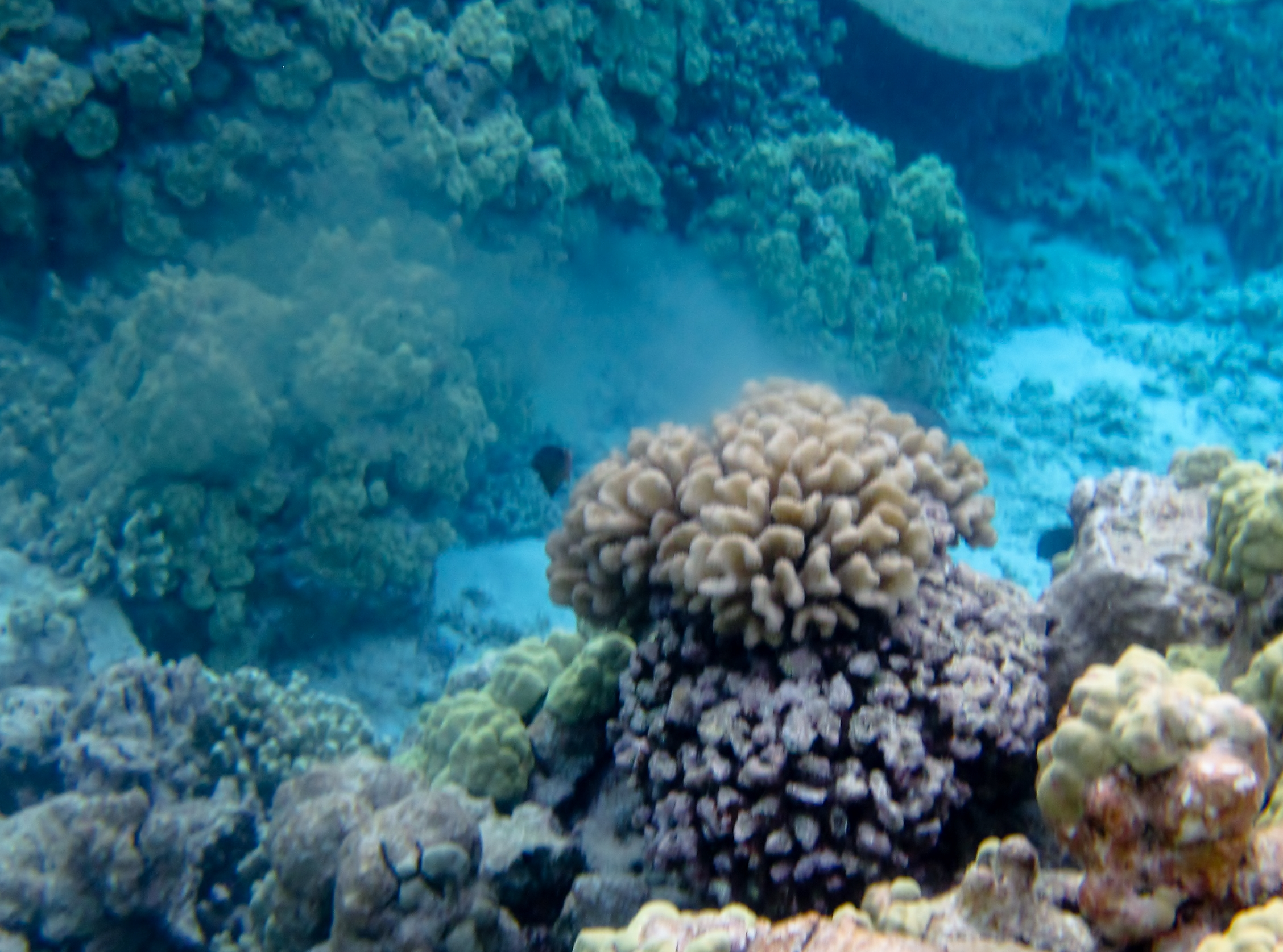 Spawning cauliflower coral (Pocillopora meandrina) within the Shark Island lagoon, French Frigate Shoals, part of the Hawaiian Islands National Wildlife Refuge and the Papahanaumokuakea Marine National Monument.